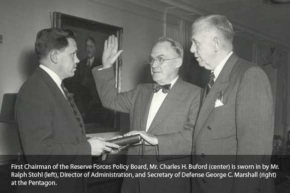 First Chairman of the Reserve Forces Policy Board, Mr. Charles H. Buford (center) is sworn in by Mr. Ralph Stohl (left), Director of Administration, and Secretary of Defense George C. Marshall (right) at the Pentagon in 1952.